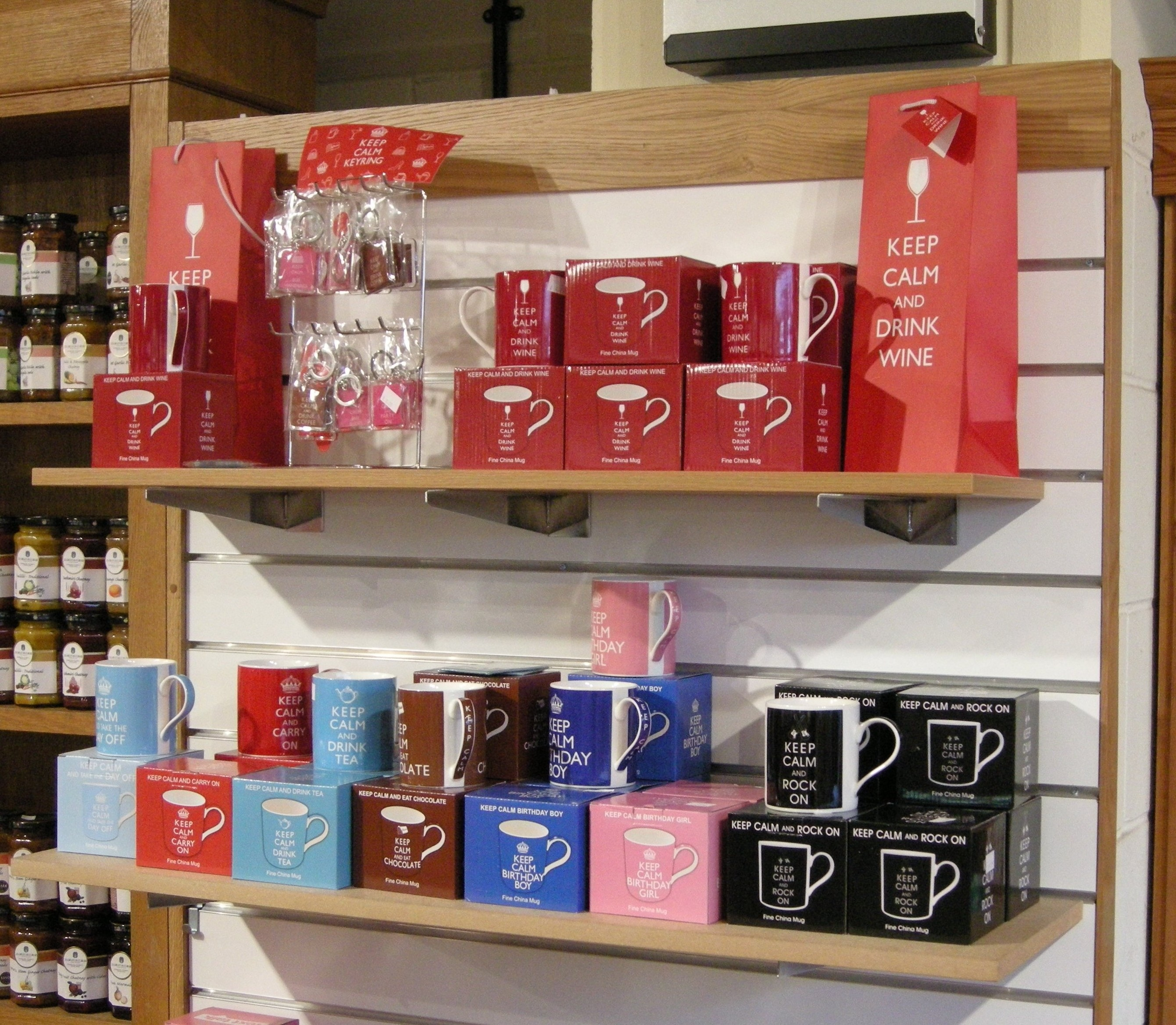 A shop display of Keep Calm and Carry On (and related parodies) merchandise, including mugs and keyrings. Slogans include "Keep Calm and Carry On", "Keep Calm and Drink Wine", "Keep Calm and Take the Day Off", "Keep Calm and Drink Tea", "Keep Calm and Eat Chocolate", "Keep Calm Birthday Girl", "Keep Calm Birthday Boy", and "Keep Calm and Rock On".